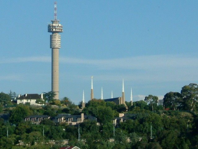 The Hillbrow Tower, with the spires of the Johannesburg South Africa LDS Temple clearly visible to the right